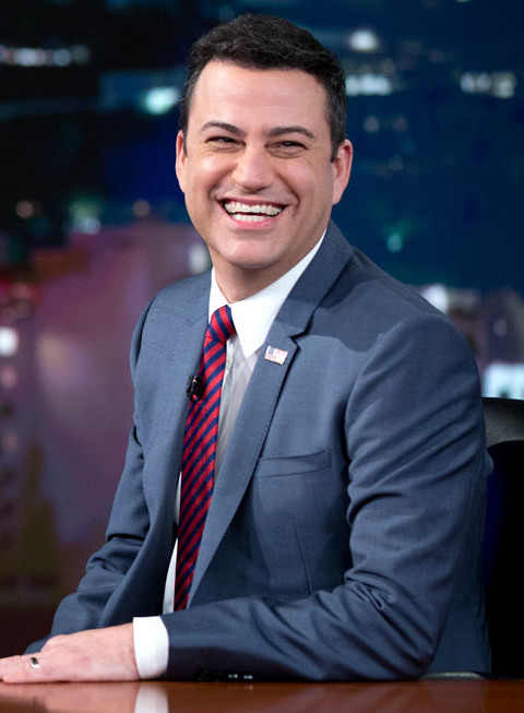 President Barack Obama talks with Jimmy Kimmel during a Jimmy Kimmel Live! video taping in Los Angeles, California, March 12, 2015. (Official White House Photo by Pete Souza)